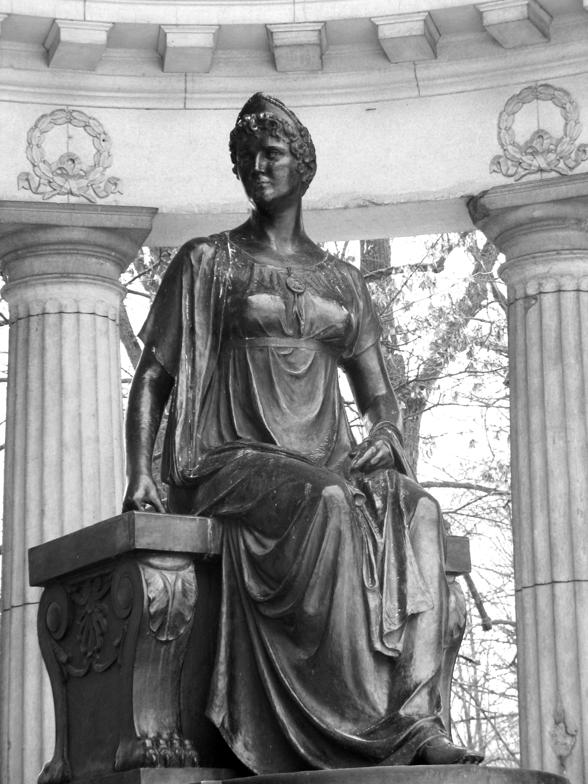 Maria Feodorovna statue. Pavlovsk park.